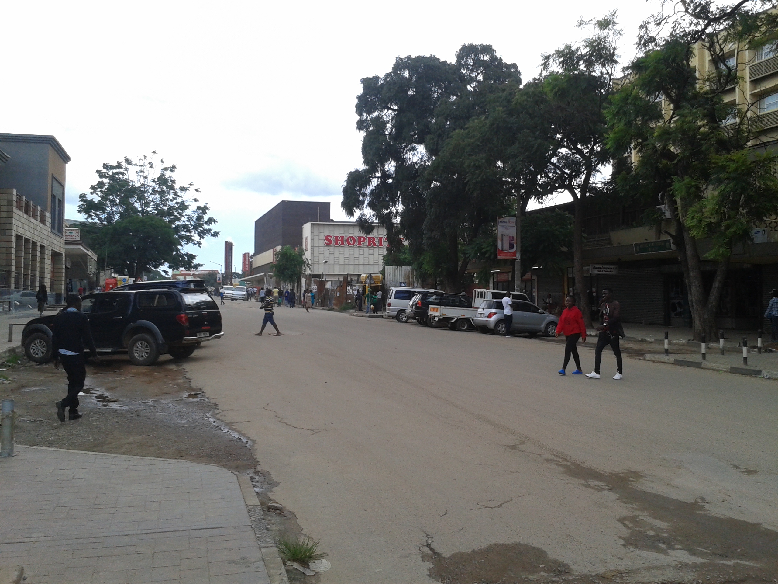 Shopping street in the city centre of Kitwe, Zambia.